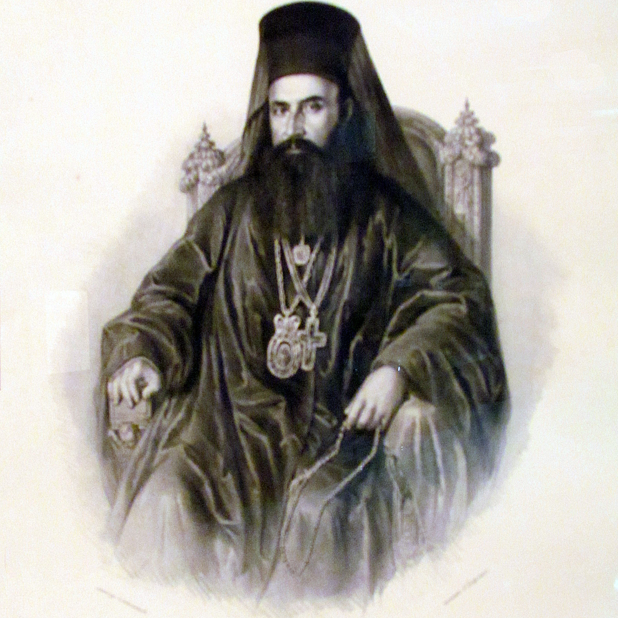 Anastas Jovanović, Metropolitan Petar Jovanović, 1850, lithograph, National Museum of Serbia